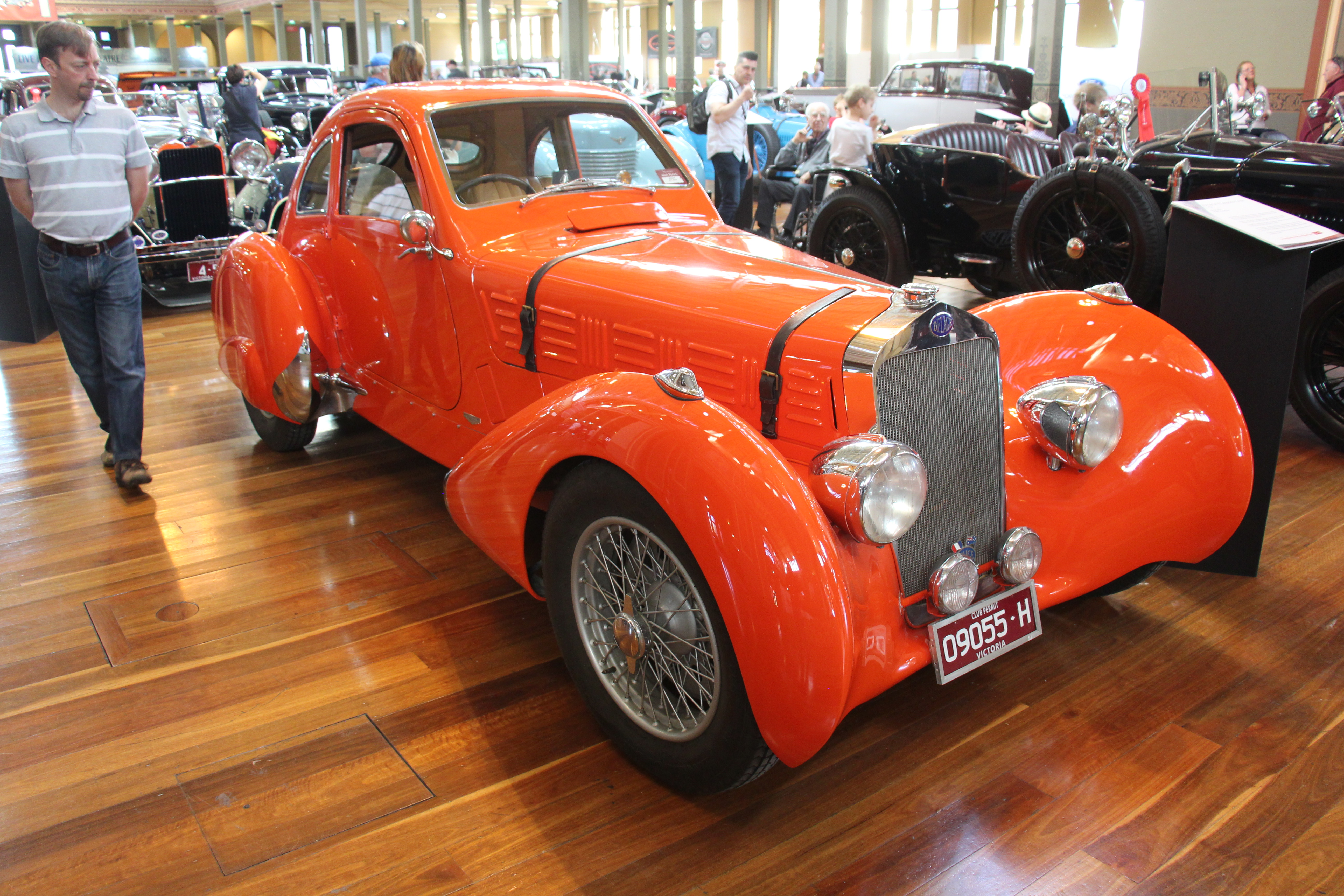 Delage was a French luxury automobile and racecar company founded in 1905 by Louis Delage in Levallois-Perret near Paris; it was acquired by Delahaye in 1935 and ceased operation in 1953. The Delage D6 was their six-cylinder car produced from 1930-40 and again, after the war, from 1946-53. For 1937 Delage presented the D6-70. The car was effectively a rebadged D6-60S, which in turn was a derivation of the D6-60. Many elegant bodies were provided by independent coachbuilders, such as the Letourneur & Marchand 2 door Sports Saloon, the Chapron Cabriolet and the Autobineau Saloon. This Coupe was bodied by Figoni and Falaschi for the 1936 LeMans 24 hour race. The original car was lost during World War II, this body is an accurate copy, recreated from on a D6-70 Autobineaux Coupe by Melbourne coachbuilders Black Art Engine; 78hp 2729cc 6 cyl